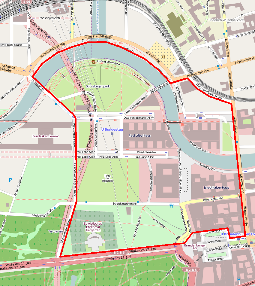 Map of berlin and a red line which shows where the so called "Bannmeile" is, this is the area around the Bundestag where no protests are allowed according to the "BefBezG"-Law.